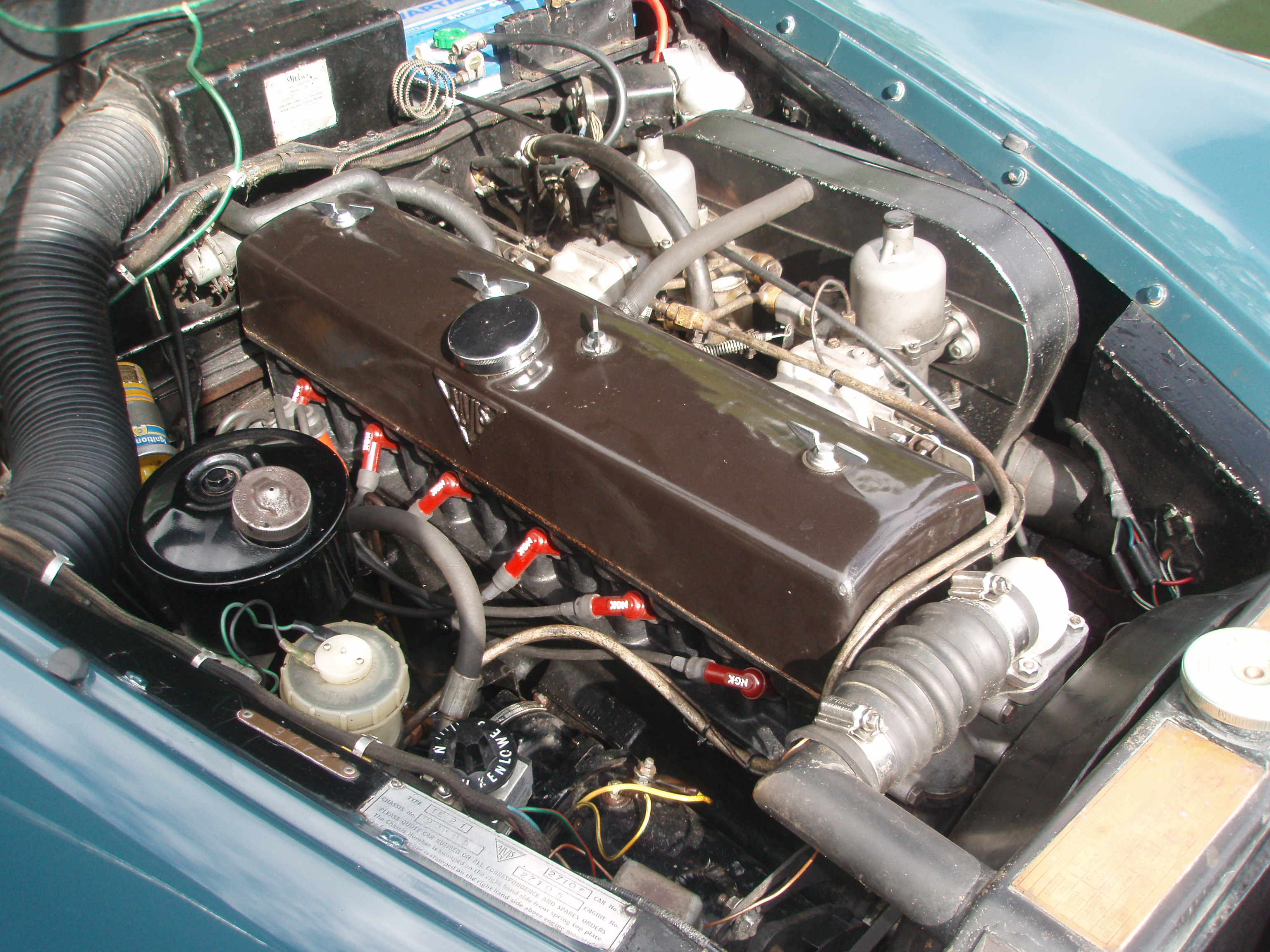 straight-6 engine of a 1964 Alvis TE21